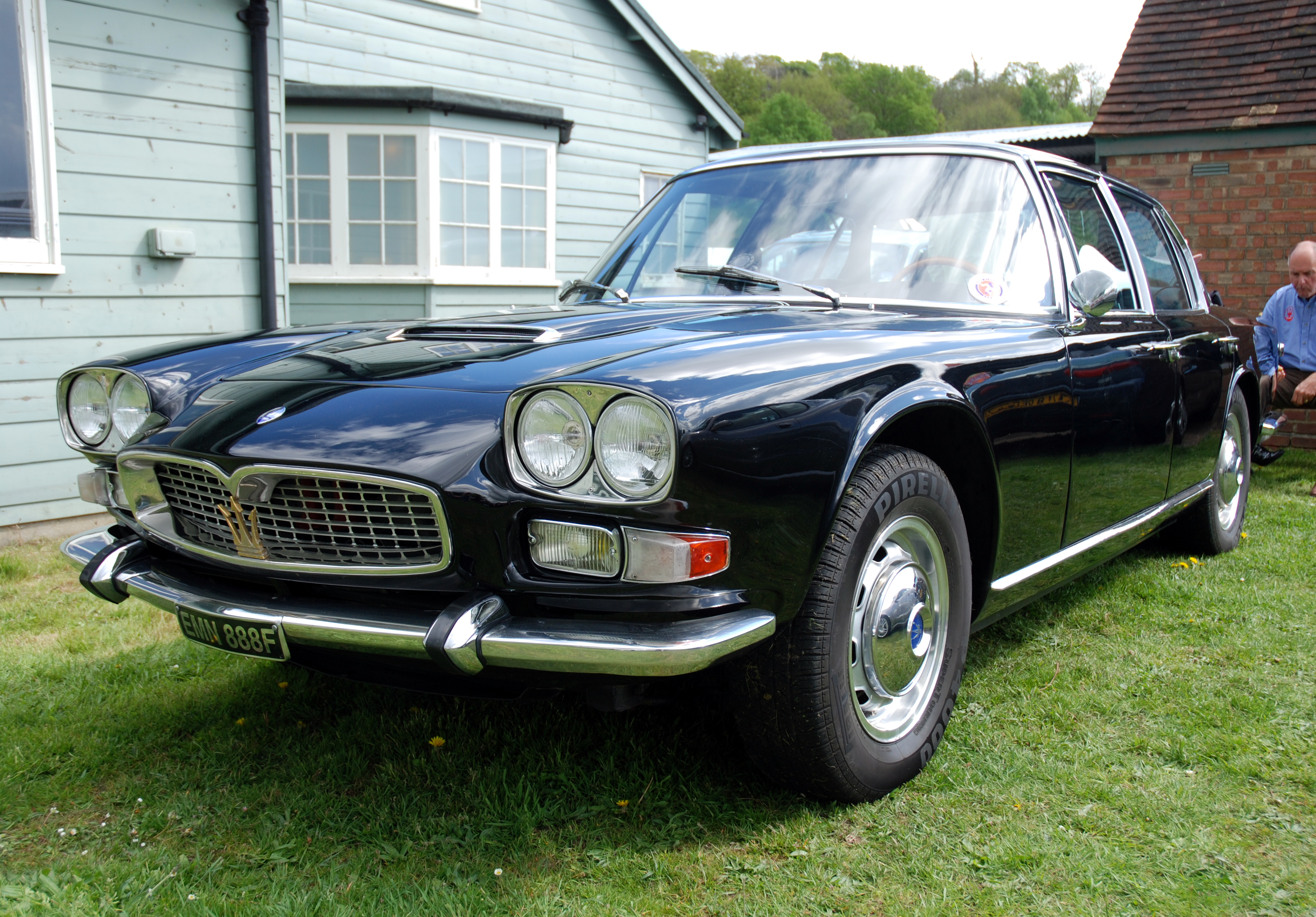 Brooklands,1st May 2010